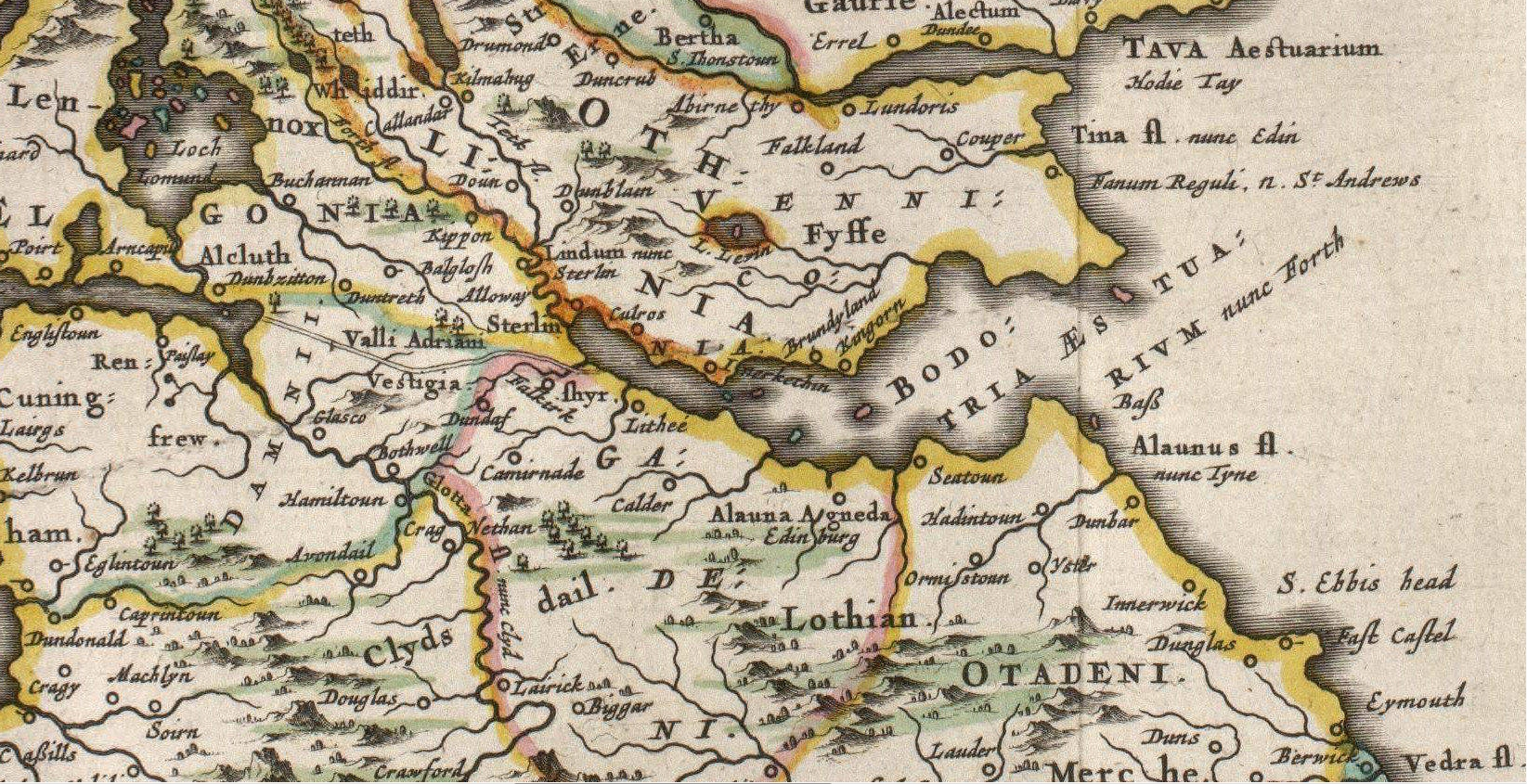 A crop of Willem Janszoon Blaeu (1571 – 21 October 1638) Atlas, map of Scotland (1654)